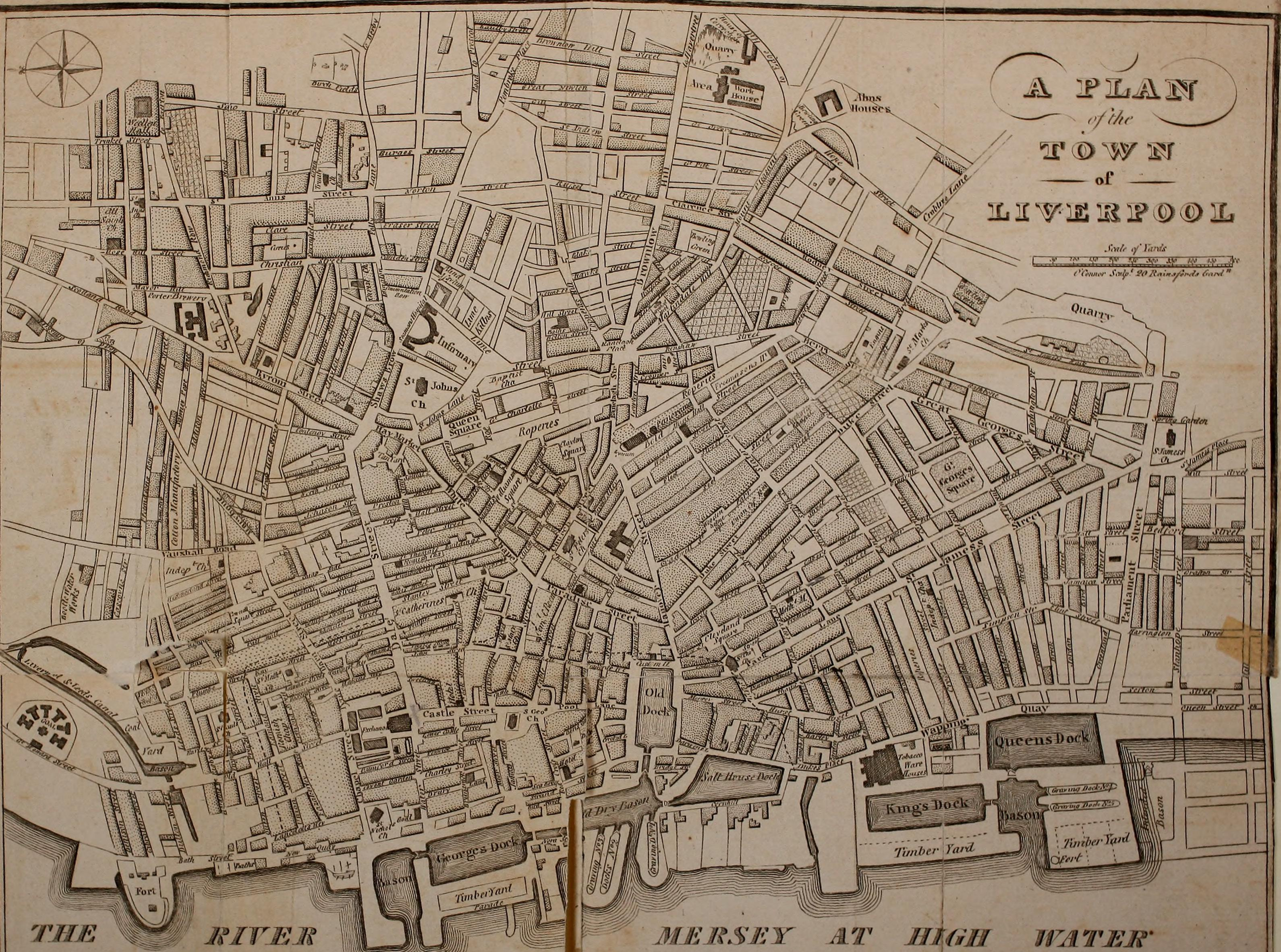 Title: The picture of Liverpool; Year: 1808 (1800s) Authors: Subjects: Publisher: Liverpool, Printed by Jones and Wright, and sold by Woodward and Alderson Text Appearing Before Image: 96 list LIST OF THE PLATES WHICH EMBELLISH THIS WORK,With Directions to the Binder for placing them, I The Plan of the Town, to face the title FAGE % View of the Old Church from the Parade, 97 3 St. Peters Church 99 4 the Infirmary and Seamans Hofpital 113 5 the Recovery Ward, 119 6 the School for the Blind, 1%7, 7 the Town Hall, 141 8 the Athenaeum and Difpenfary, 145 9 the Union News Room, 147 lo the Lyceum, I50 II the Welch Charity Scho©l, 154 12 the Theatre, 159 13 the Botanic Garden, 173. u Library of CongressBranch Bindery, 1902 ■ ■ ■ Sofia; (llH/flf B H SB Bw 3QAH *-f ■ aoo««pBJ ■ 9 £1 warn HH gam ?;)U: SB ssbhw kh&h Ha I fltHHHBM ESS I ■fi gg Bra (888; IHI S9 ■ I sSbSshb n BSSE ■■■■■ Text Appearing After Image: THE ;gp IHYMM Mofsidr Fei mersey at man WATE1Tpictureofliverpo00live